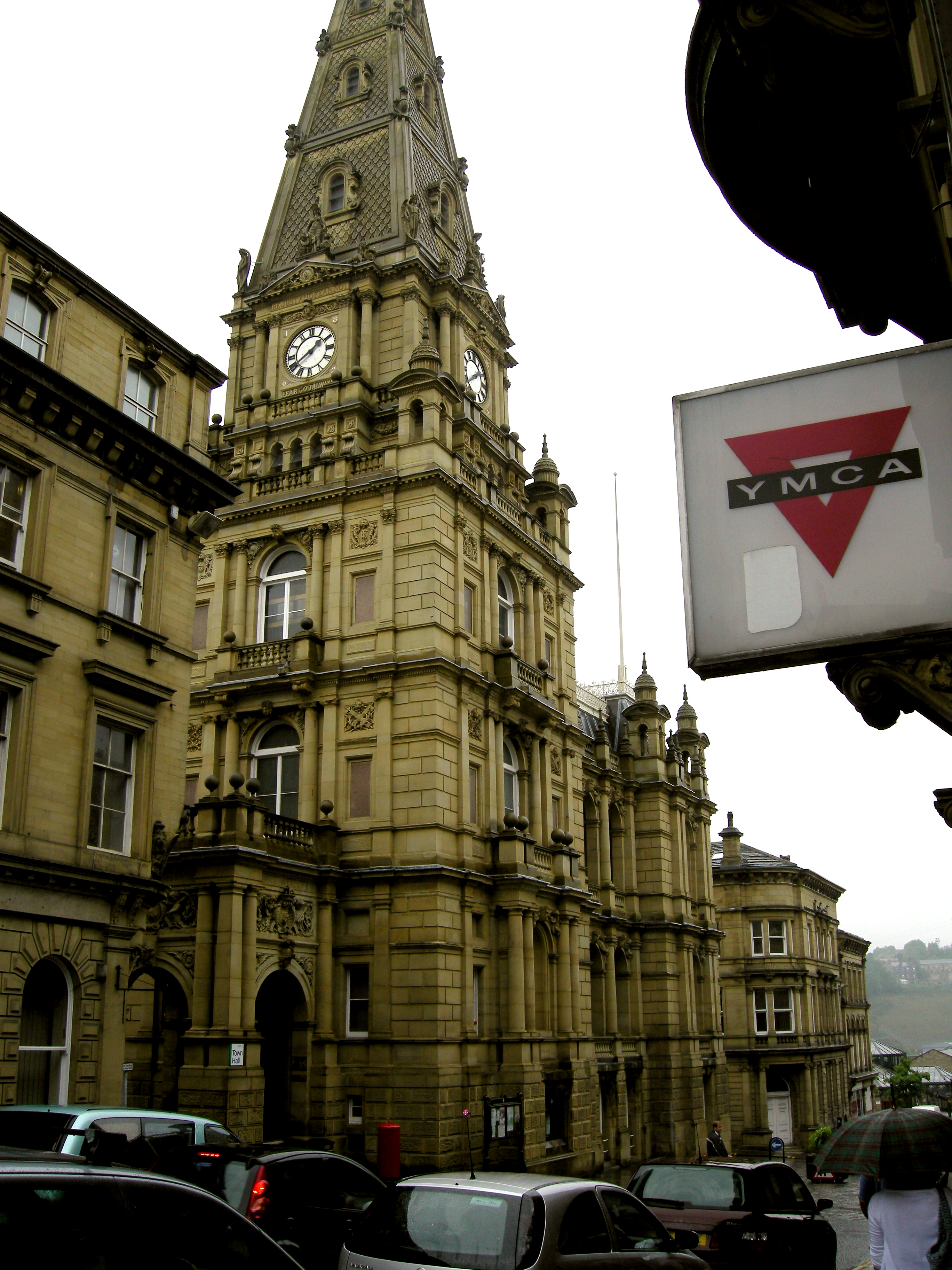 Town Hall, Halifax, West Yorkshire, England. 53 43'28"N. 1 51'38"W.